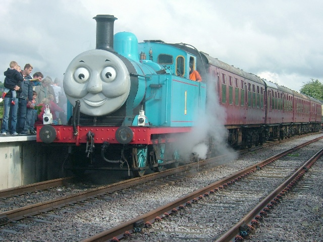 The Avon Valley Railway during a Thomas the Tank Engine weekend. Thomas at Avon Riverside station.